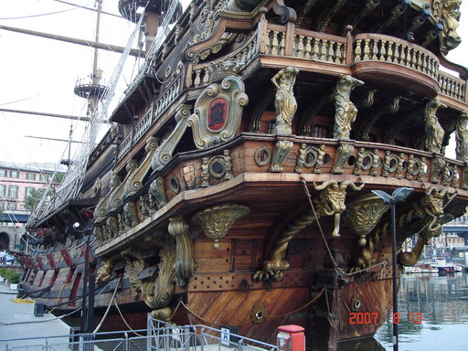 Stern ship Galeone Neptune in the old port of Genoa, Italy